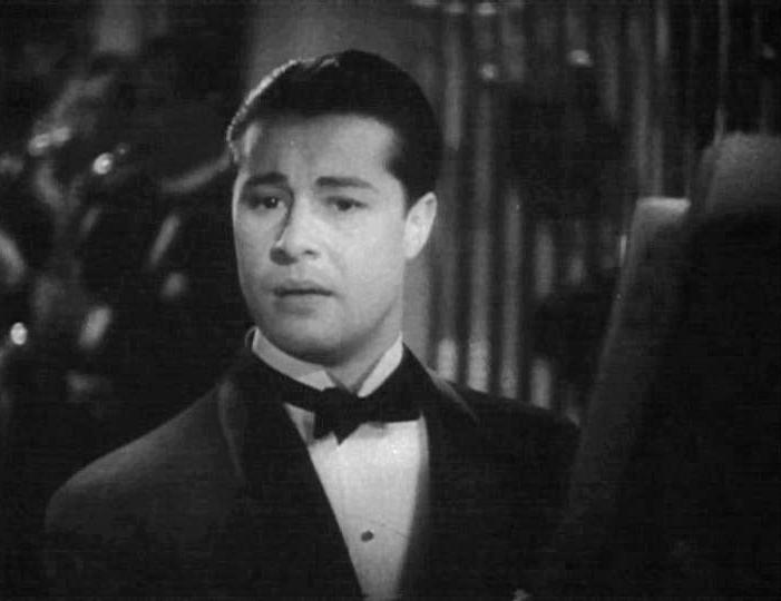 Screenshot of Don Ameche from the trailer for the film Alexander's Ragtime Band